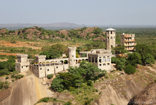 Contrary to speculations, the Kajuru Castle located in Kaduna is not an ancient monument. Interestingly, it was built in 1978 by a controversial German expatriate who lived in Kaduna at the time. This breathtaking architectural master-piece is a tourist wonder of sorts. The style is very European and clearly German with a baronial hall, complete with suits of armour. This is an image from Nigeria